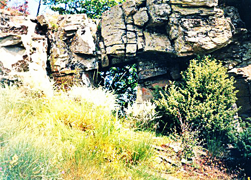 Kings gate arc BG